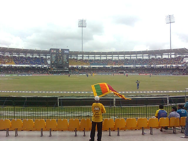 SL v Aus,August 22,2011